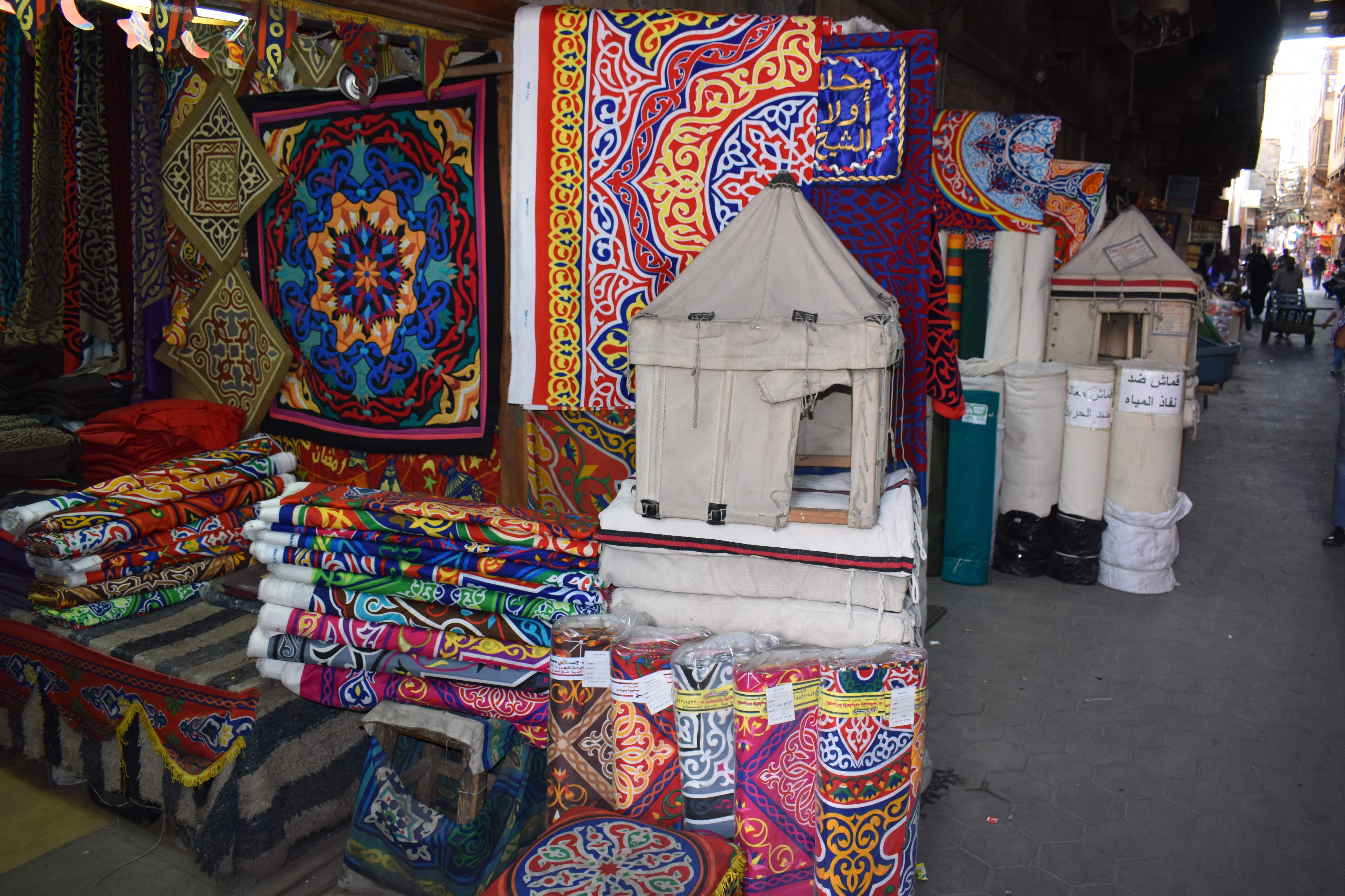 Tent maker in Elkhiyamia street in 2017, photo by Hatem Moushir